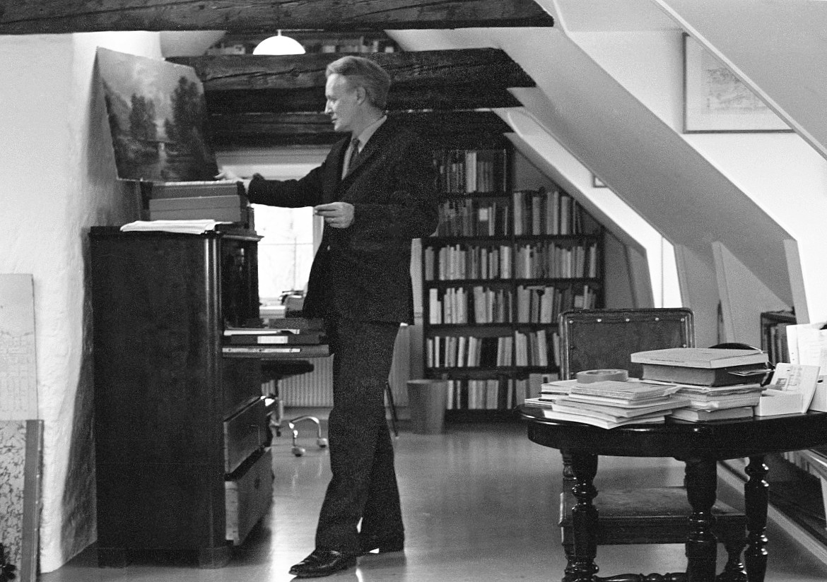 FOTOGRAFIPer Anders Fogelström i sitt arbetsrum i bostaden på Fjällgatan 30. 1968-1969FOTOGRAF: Lantz, Jerry.BILDNUMMER: S00 5401 13Stadsmuseet i Stockholm